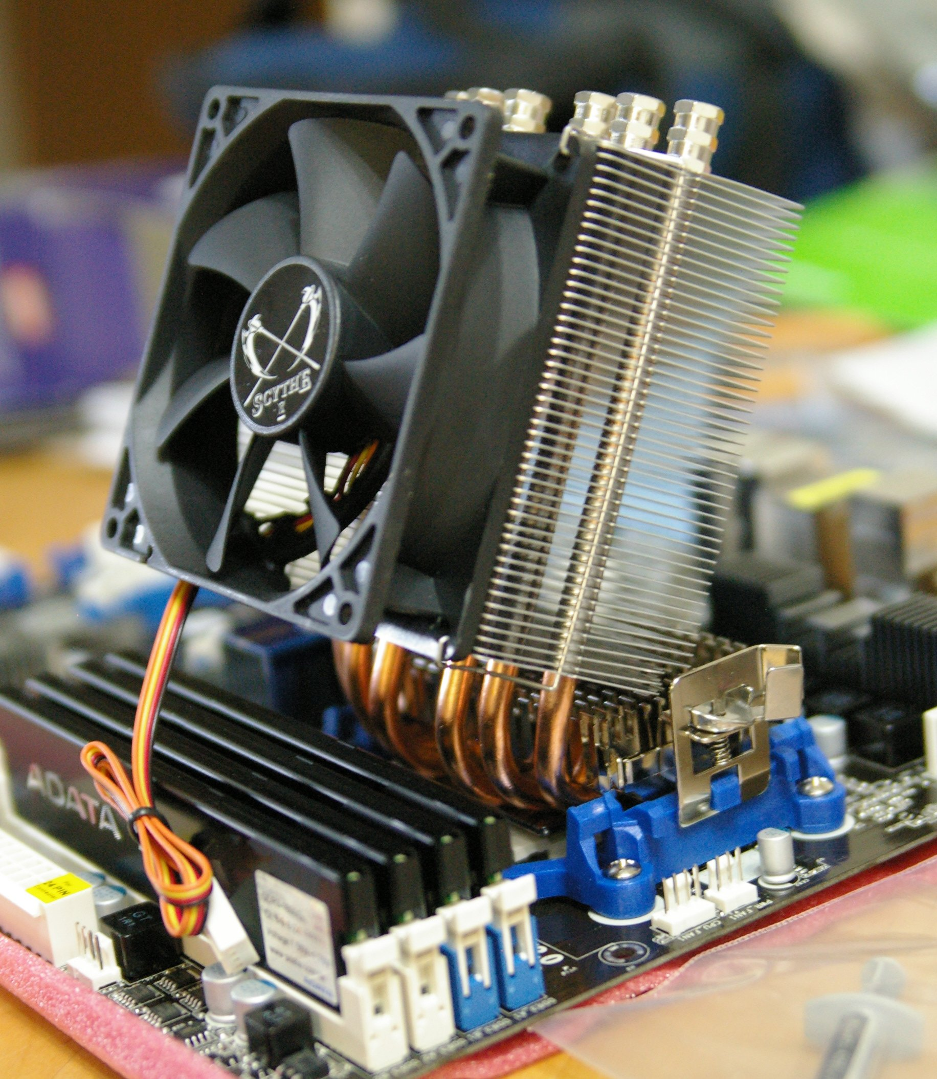 A CPU heatsink that has heat pipes to take the thermal energy from the CPU to the fins that are cooled by the fan.